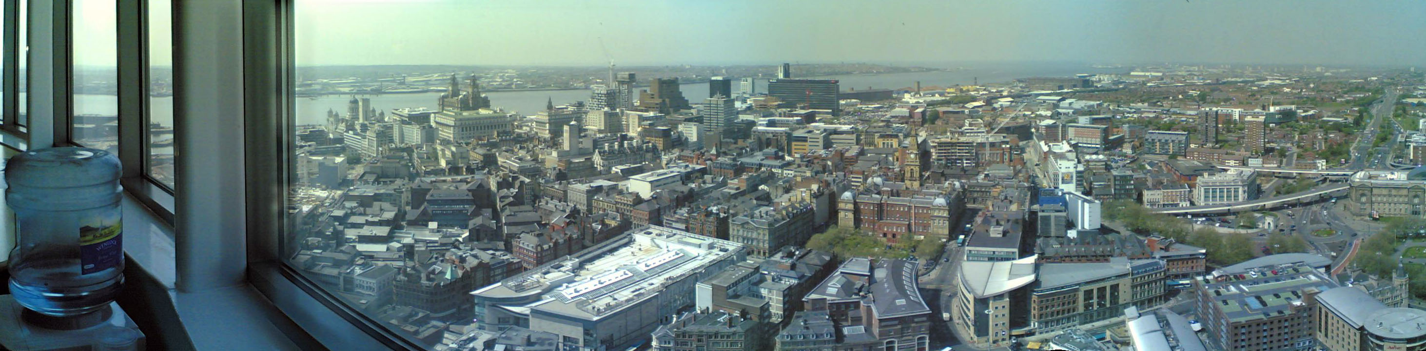 Panorama of Liverpool taken from the radio tower